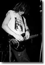 Tom Andreassen playing live with "Life... But How To Live It?"